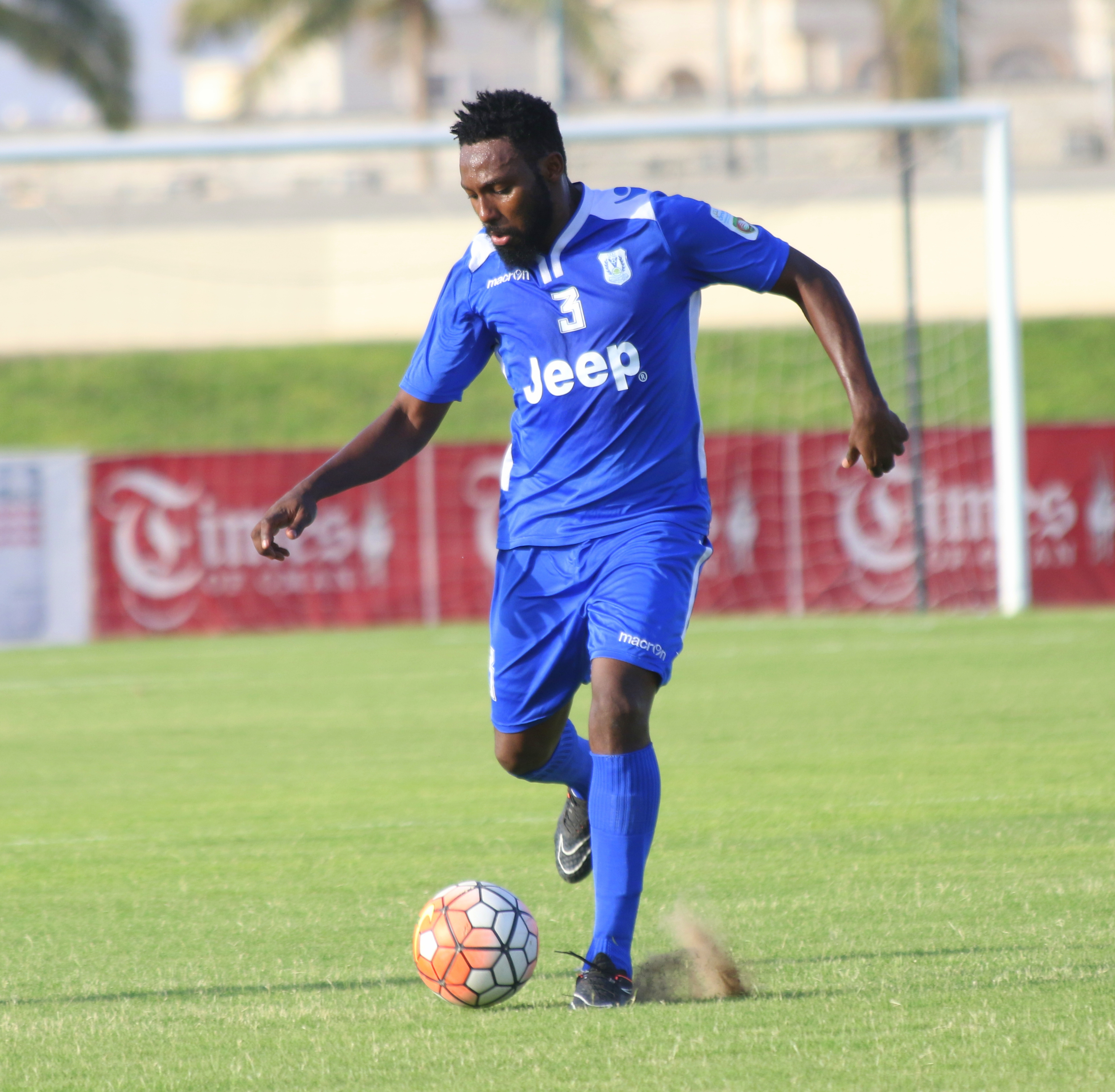 Jamal Mohamed in a match against Al Musannah Club. 20 March 2016 Auqad Sports Complex, Auqad, Salalah, Oman Photographer : Pratyush Mishra Photographer email id